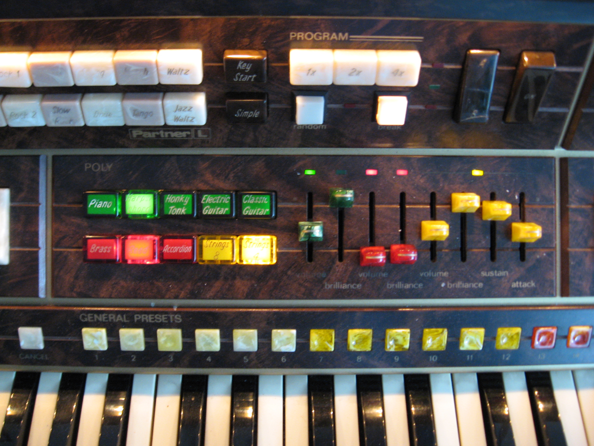 Farfisa Pergamon "Percussion, Brass, Strings"